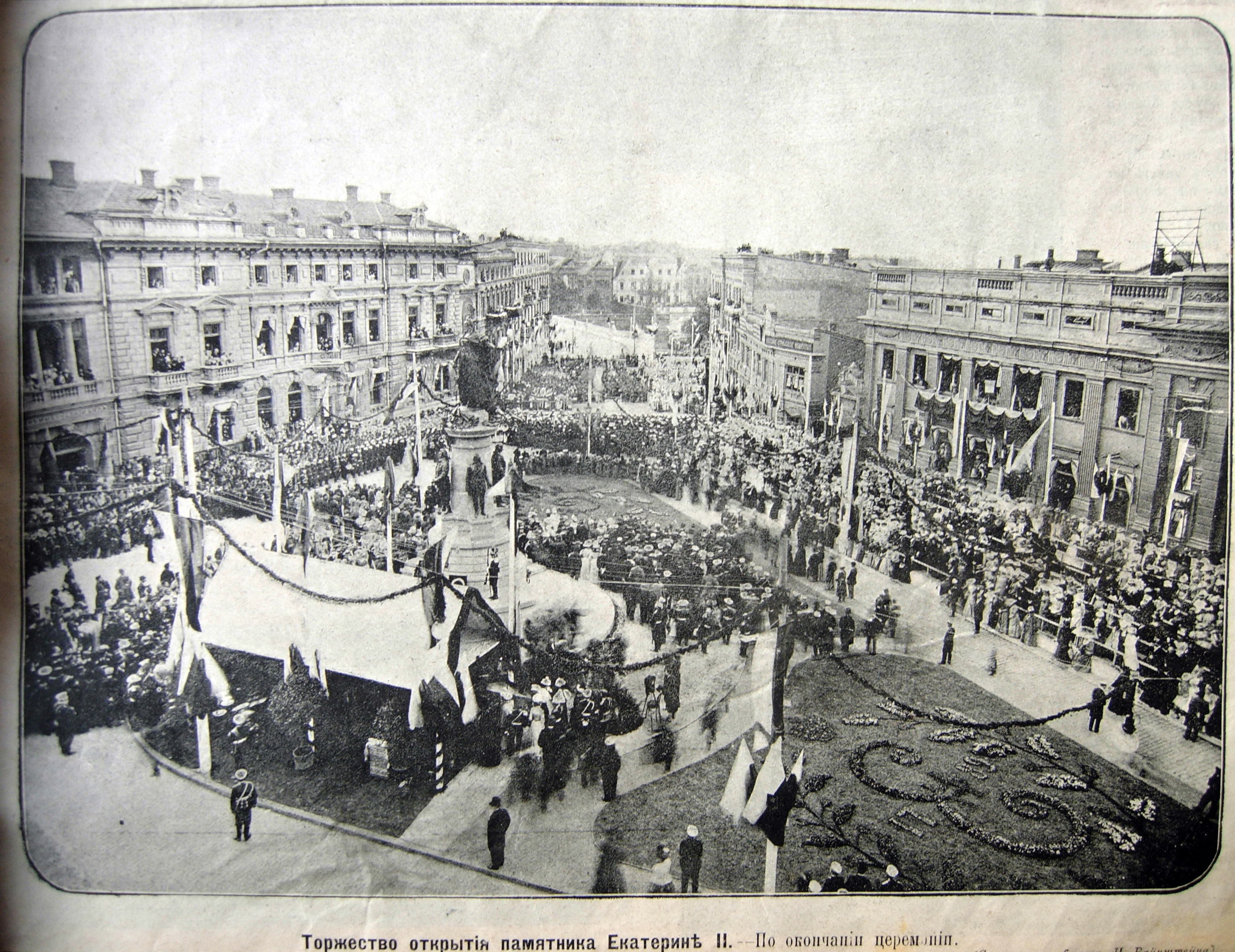 Opening of the monument to Catherine the Great in Odessa